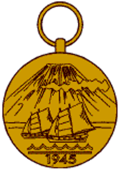 ARMY OF OCCUPATION WORLD WAR II MEDAL REVERSE